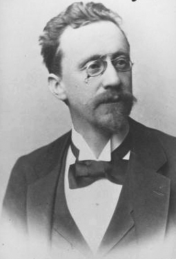 Carl Karlweis an austrian author at 1897